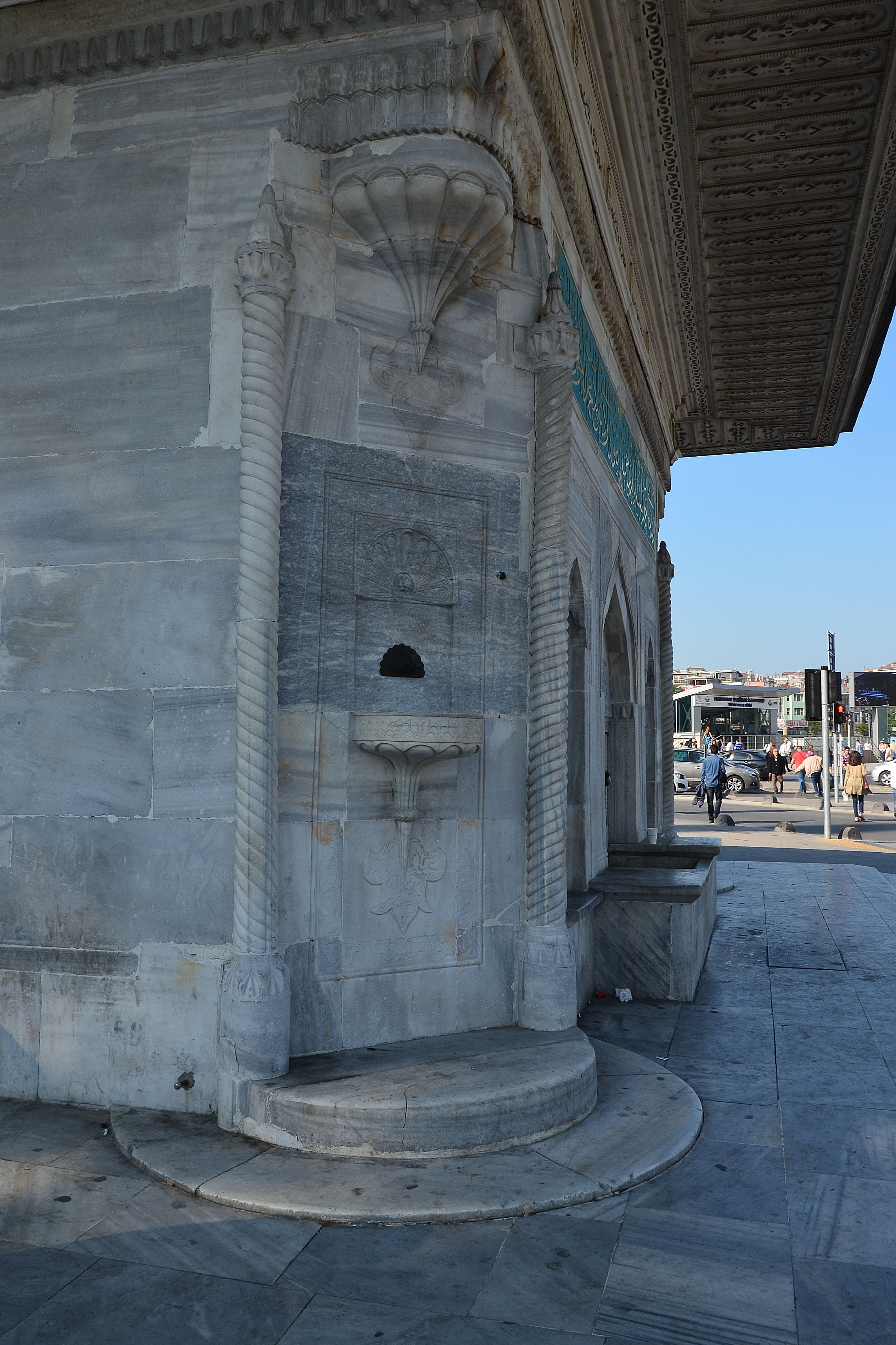 Corner face flanked by Solomonic columns crowned with Corinthian order capital of the Fountain of Ahmed III in Üsküdar, Istanbul